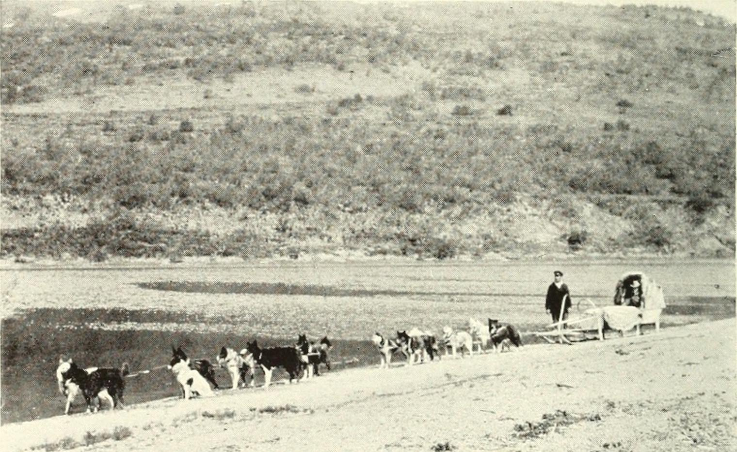 THE ISPRAVNIK'S TEAM OF SLEDGE-DOGS